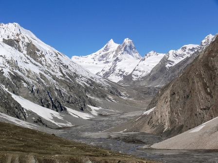 View of the source of Stod River, which is also called the Suru River. The Glacier that feeds the Suru/Stod has shrunk and dried up. The Pensi La act as a watershed between two river systems- the Zanskar and the the Suru Rivers.